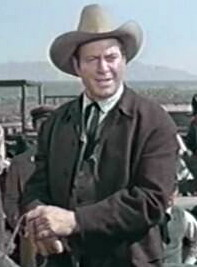 Chuck Roberson in McLintock! (cropped screenshot)